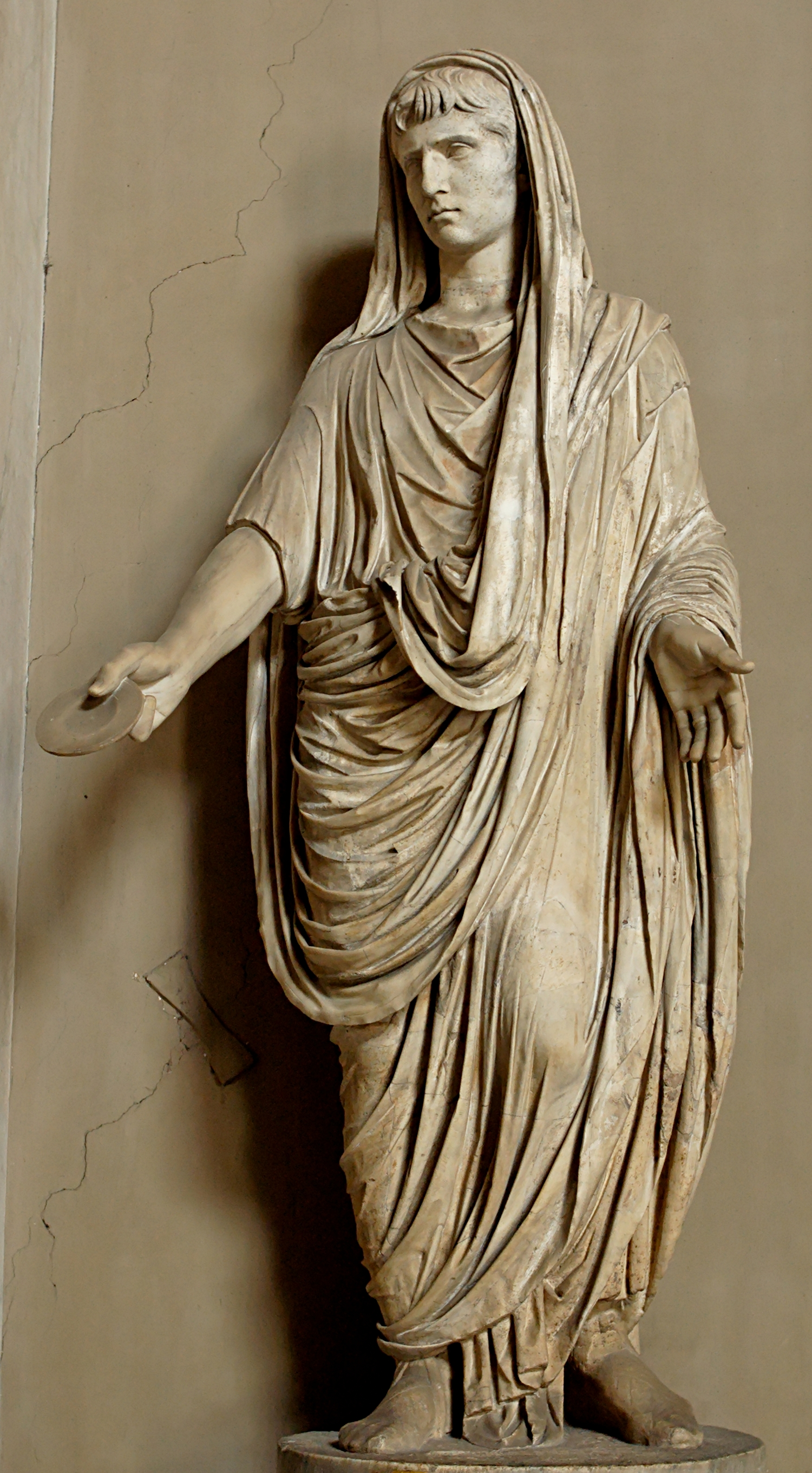 Genius of Augustus. Marble, Roman artwork of the Imperial era (right arm restored).